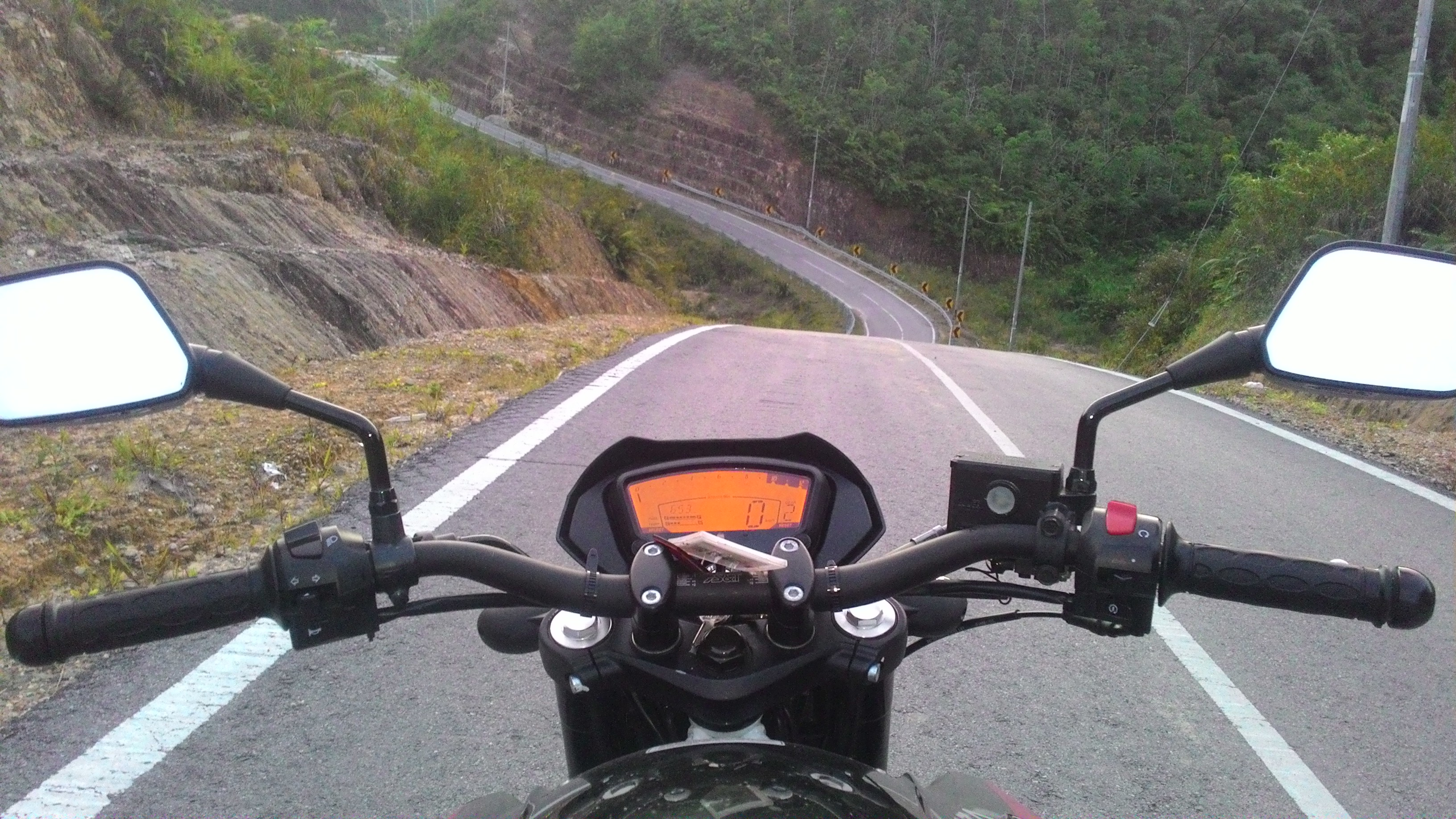 Rider View